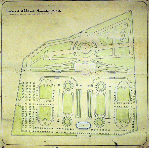 Garden plan from Moltke's transformation of Lundehaven into Marienlyst near Elsinore, Denmark. The garden was redesigned into a late-Baroque garden.